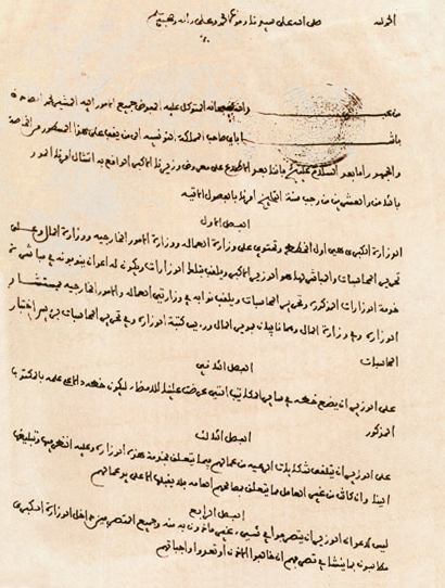 1860_-_Grand_Viziers_of_the_Beylik_of_Tunis_Declaration